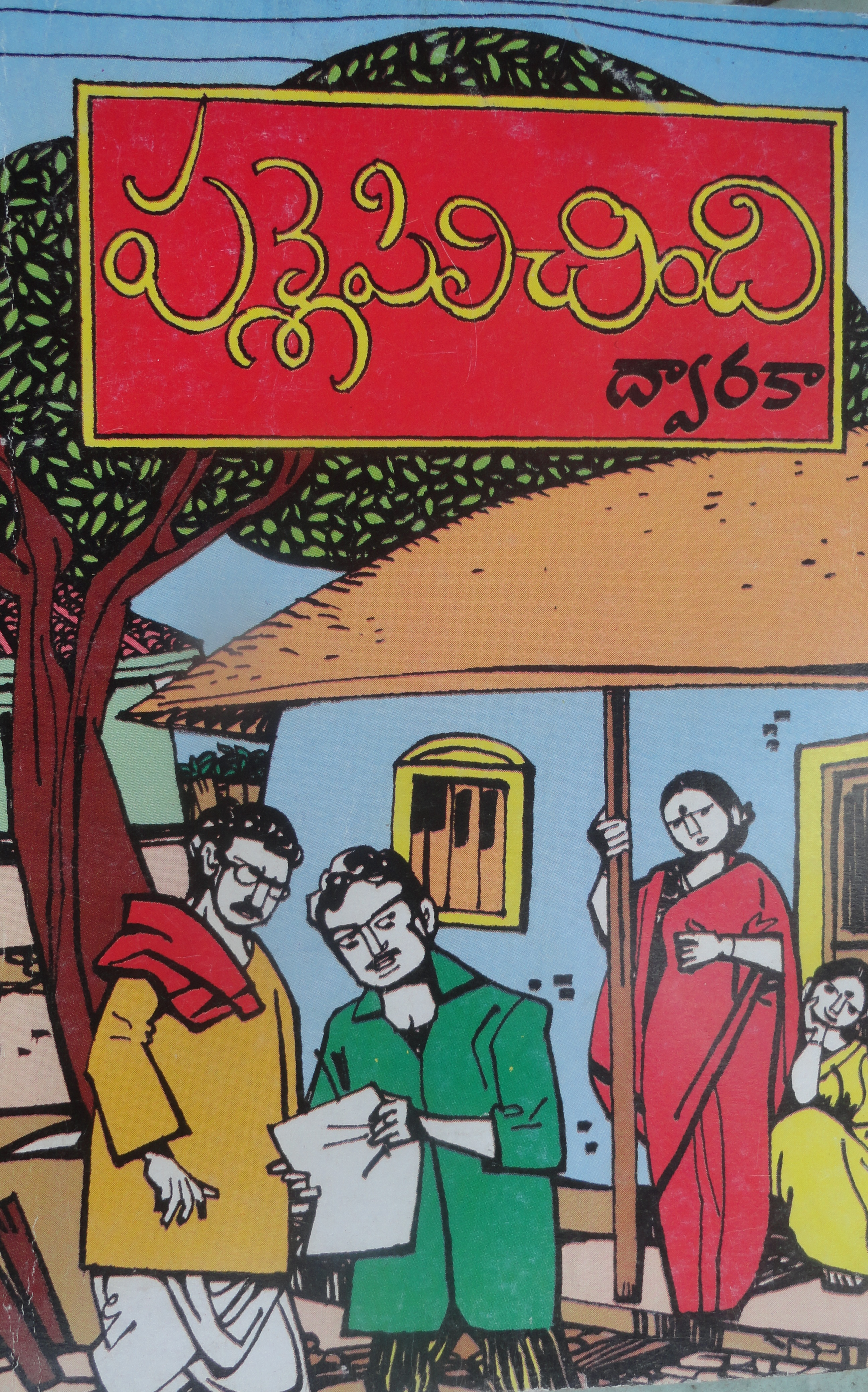 palle piliciMdi: book